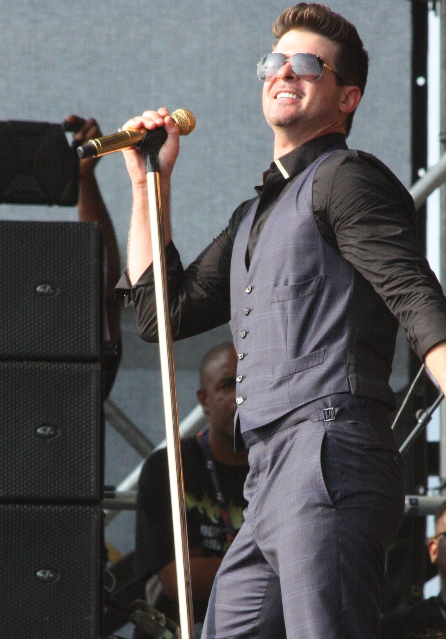 Robin Thicke in 2014